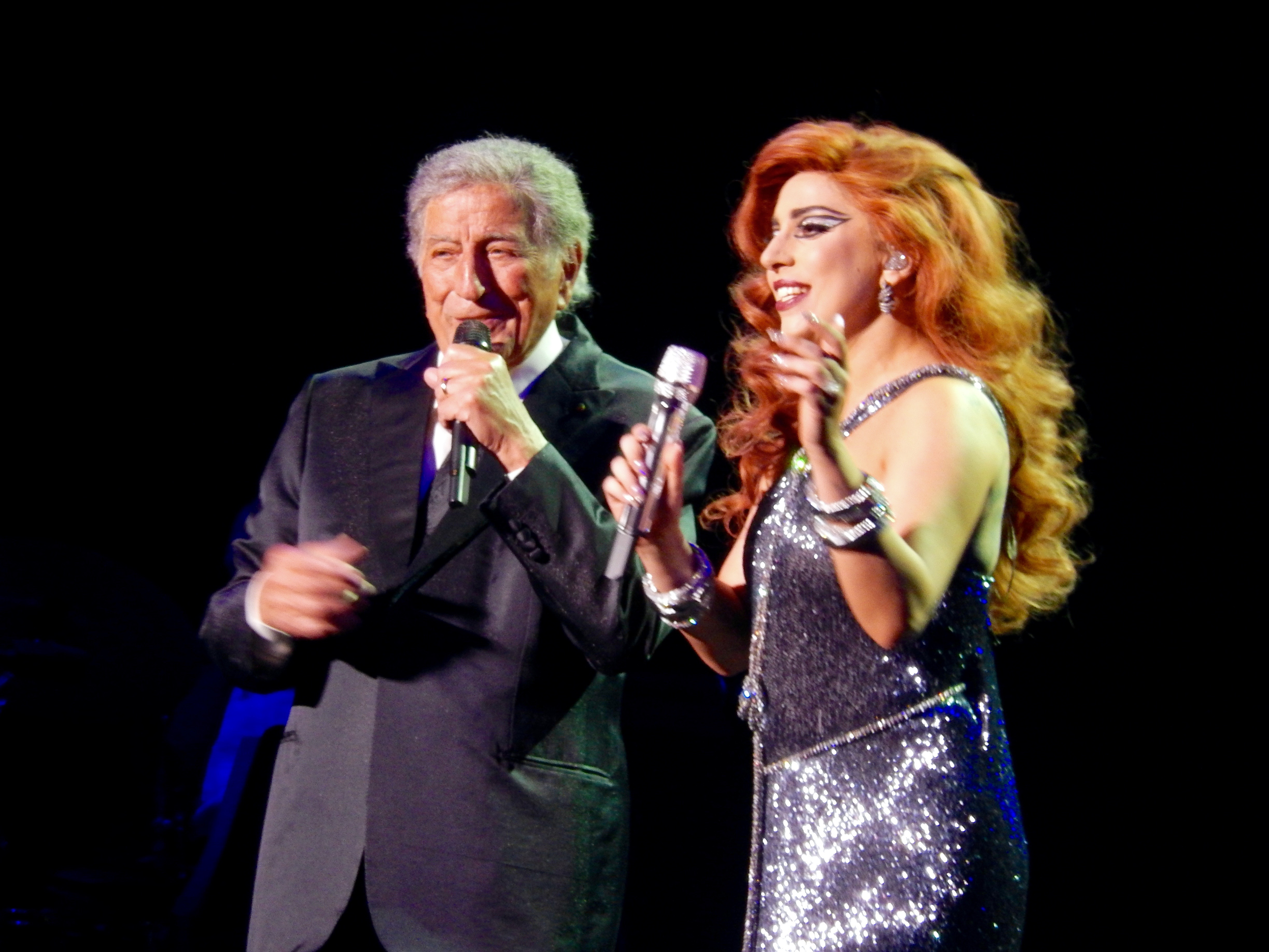 Cheek to Cheek Concert. The Axis. Planet Hollywood. Las Vegas. April 2015. Gaga and Bennett performing at Los Angeles for the Cheek to Cheek Tour